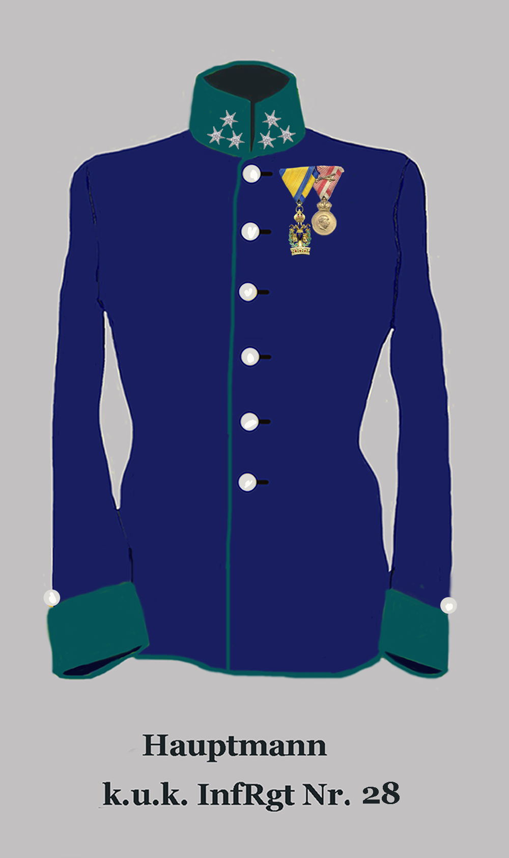 Captain of the Austria-Hungarian Army (German 28th Infantry Regiment) Coat with grass-green collar and white buttons